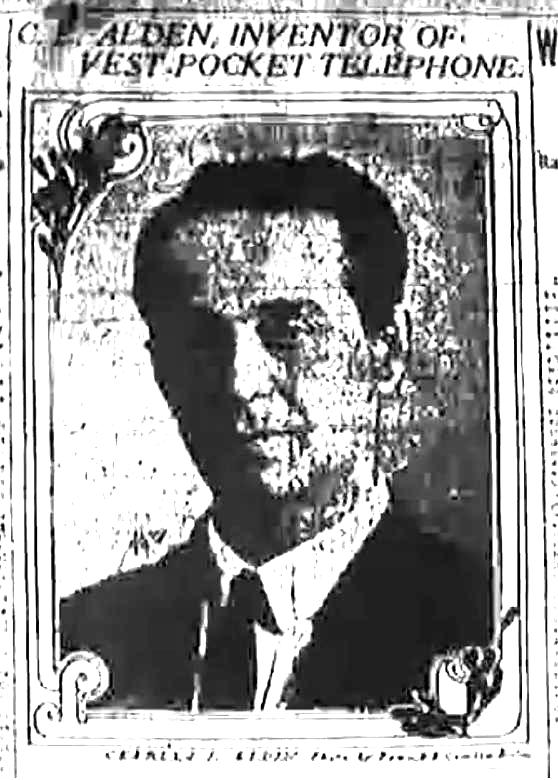 A scan of the 1906 edition of the New York World mentioning Charles E. Alden as the inventor of the "vest-coat telephone".